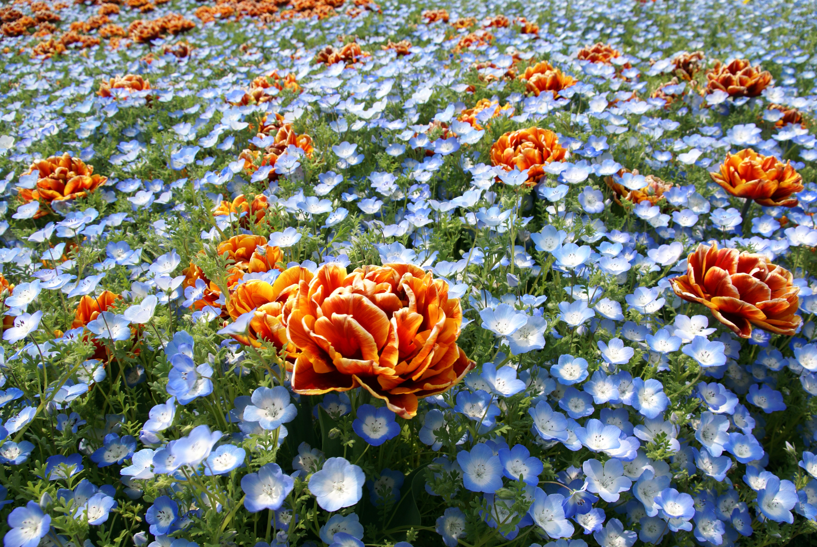 Akashi Kaikyo National Government Park in Awaji, Hyogo prefecture, Japan